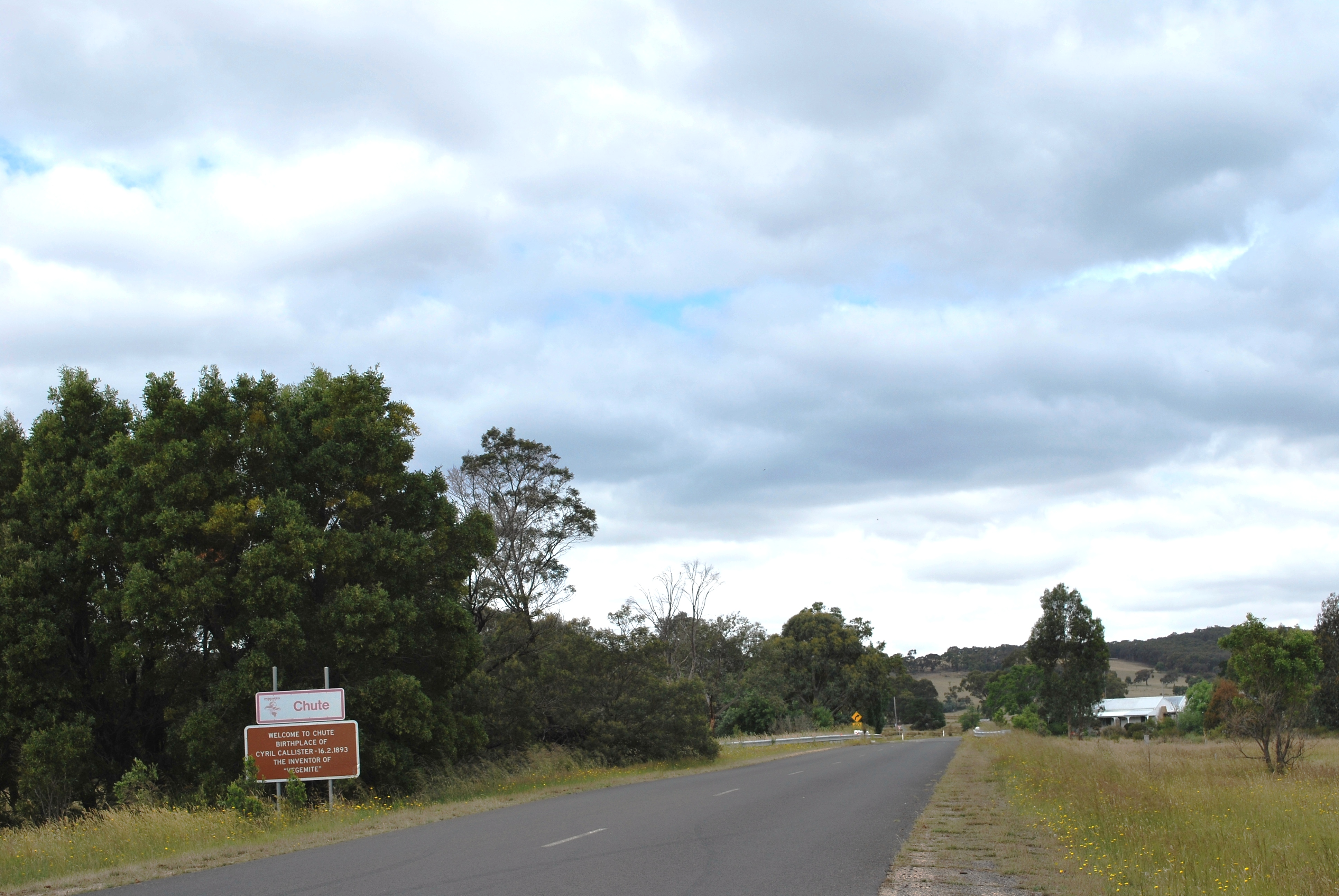 Entry sign at Chute, Victoria. The sign proclaims Chute as "the birthplace of Cyril Callister b. 1893. The inventor of Vegemite."